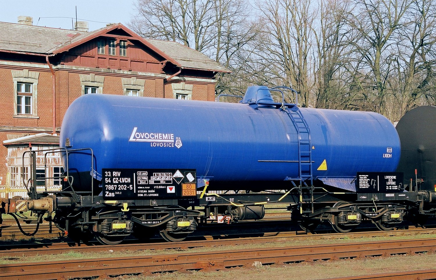 Zacs 33 54 786 7 202-5 (built by Waggonworks in Studenka, Czechoslovakia in 1985 (except the tank)), owned by Lovochemie in Lovosice (Czech rep.), with high-pressure stainless-steel tank, used for the transport of nitric acid. Spotted in station Brniste (Czech rep.) (2007). The car is incorrectly inscribed with class Zas and with bad type-marking 346.2 (351.1 would be correct).